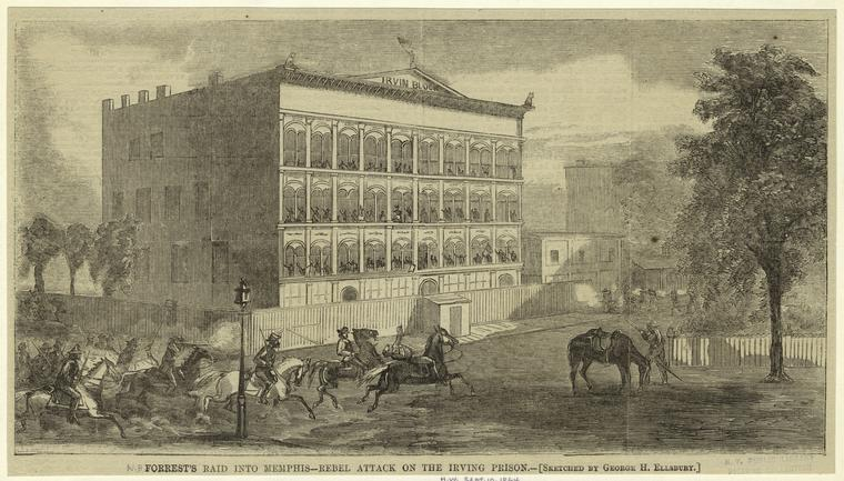 Forrest's raid into Memphis -- Rebel attack on the Irving prison. From Harper's weekly: a journal of civilization. Sept. 10, 1864